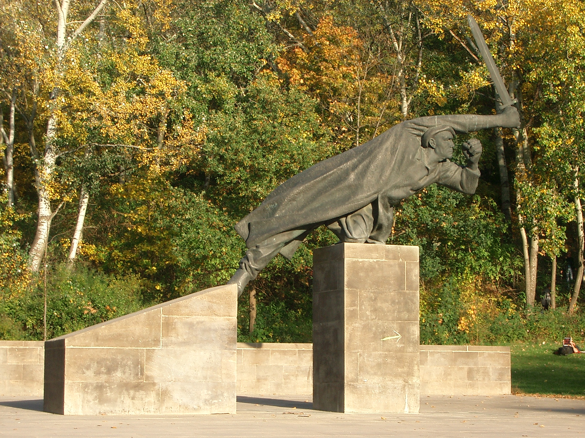 Memorial by Fritz Cremer for the german members of the war in Spain in the Volkspark Friedrichshain